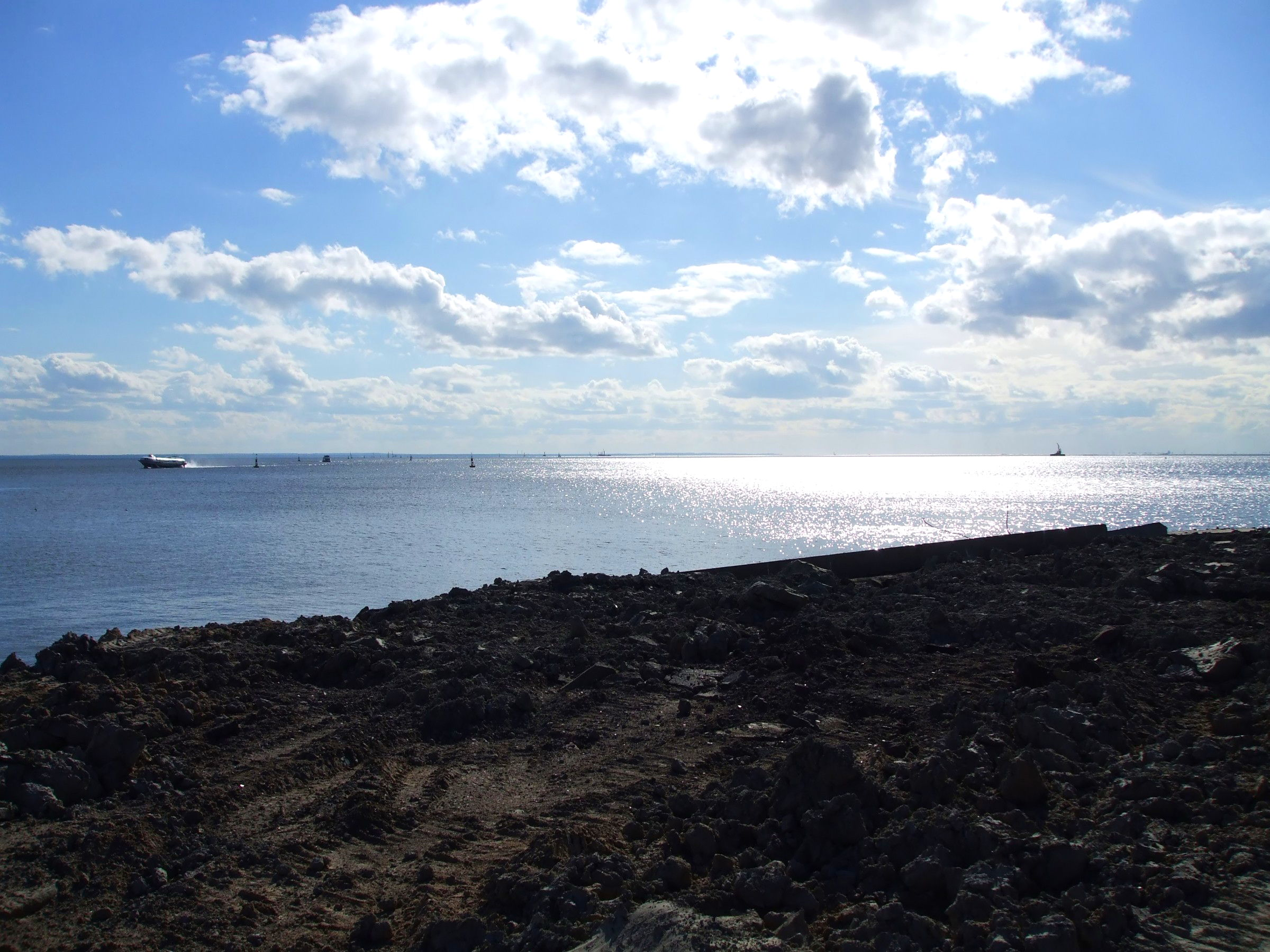 View at Gulf of Finland from Krestovskiy Island, Saint-Petersburg.